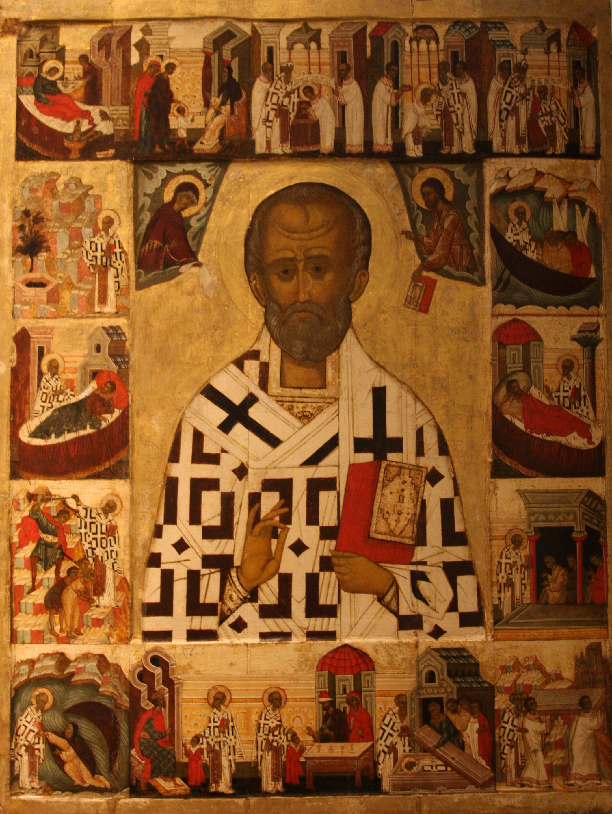 Russian icon depicting St Nicholas with scenes from his life. Late 1400s or early 1500s. National Museum, Stockholm ( NMI 272).